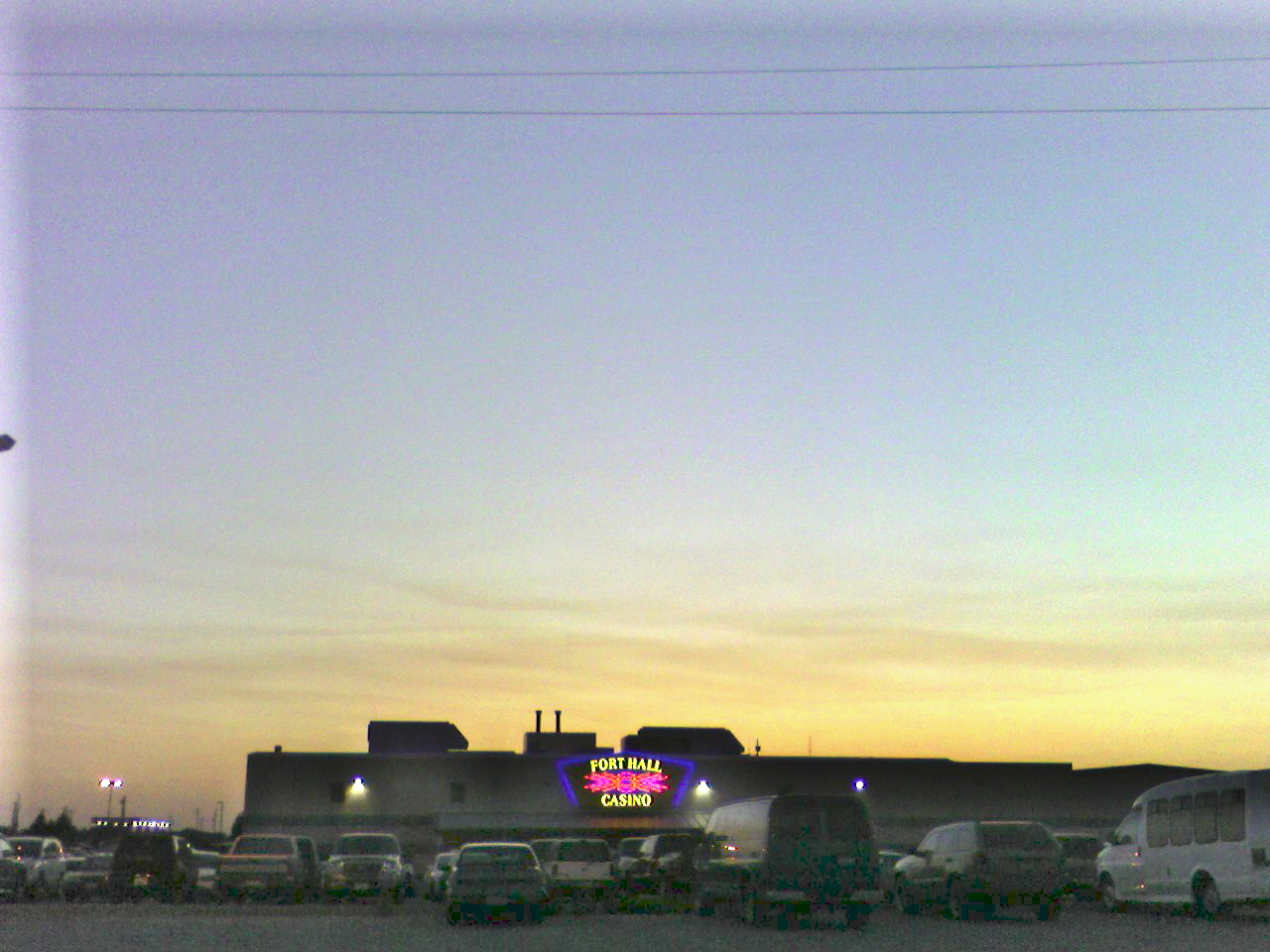 Fort Hall Indian Casino in Fort Hall, Idaho, USA by David Jolley